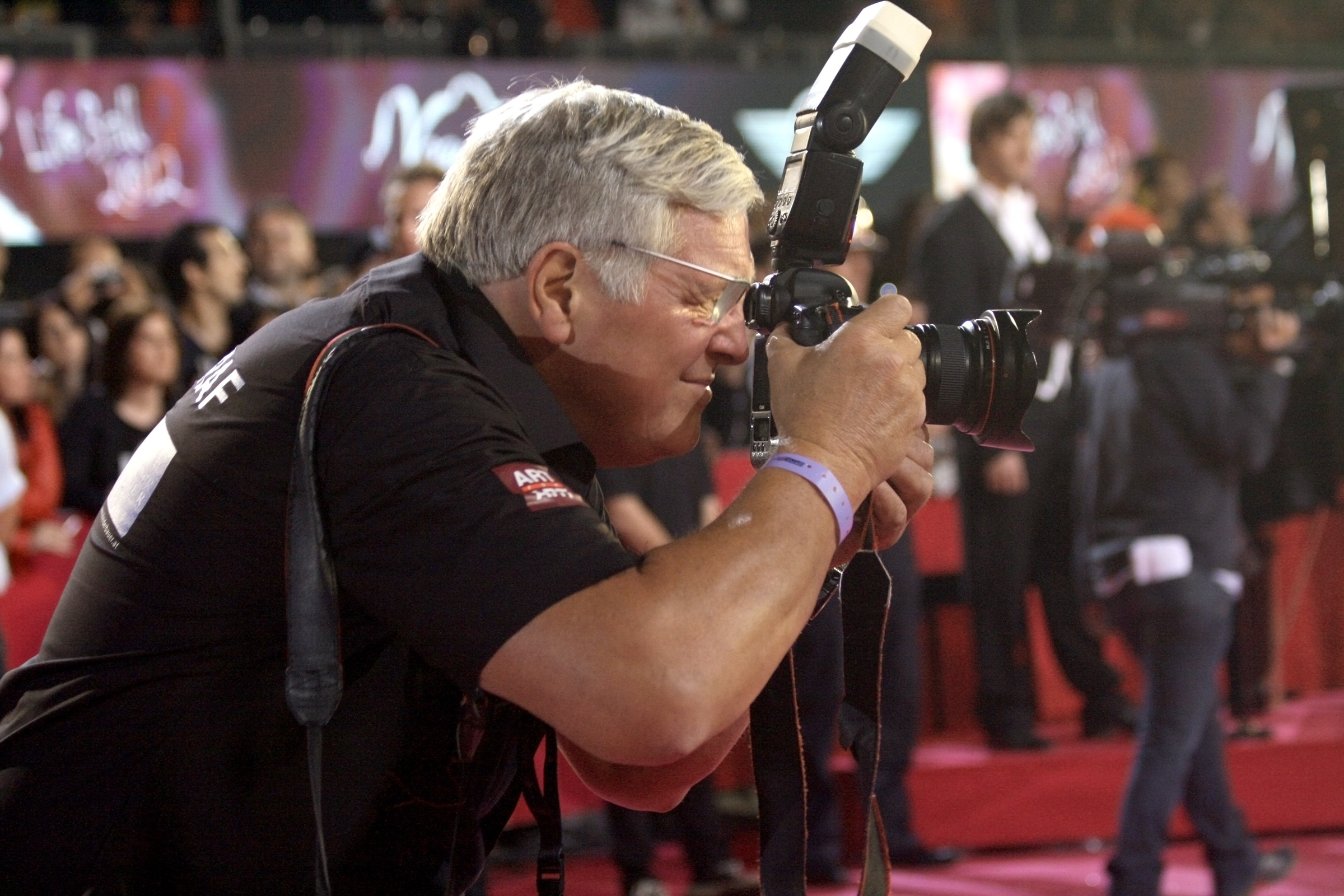 Conny de Beauclair at Life Ball 2012, Rathaus (Town Hall) of Vienna, Austria.